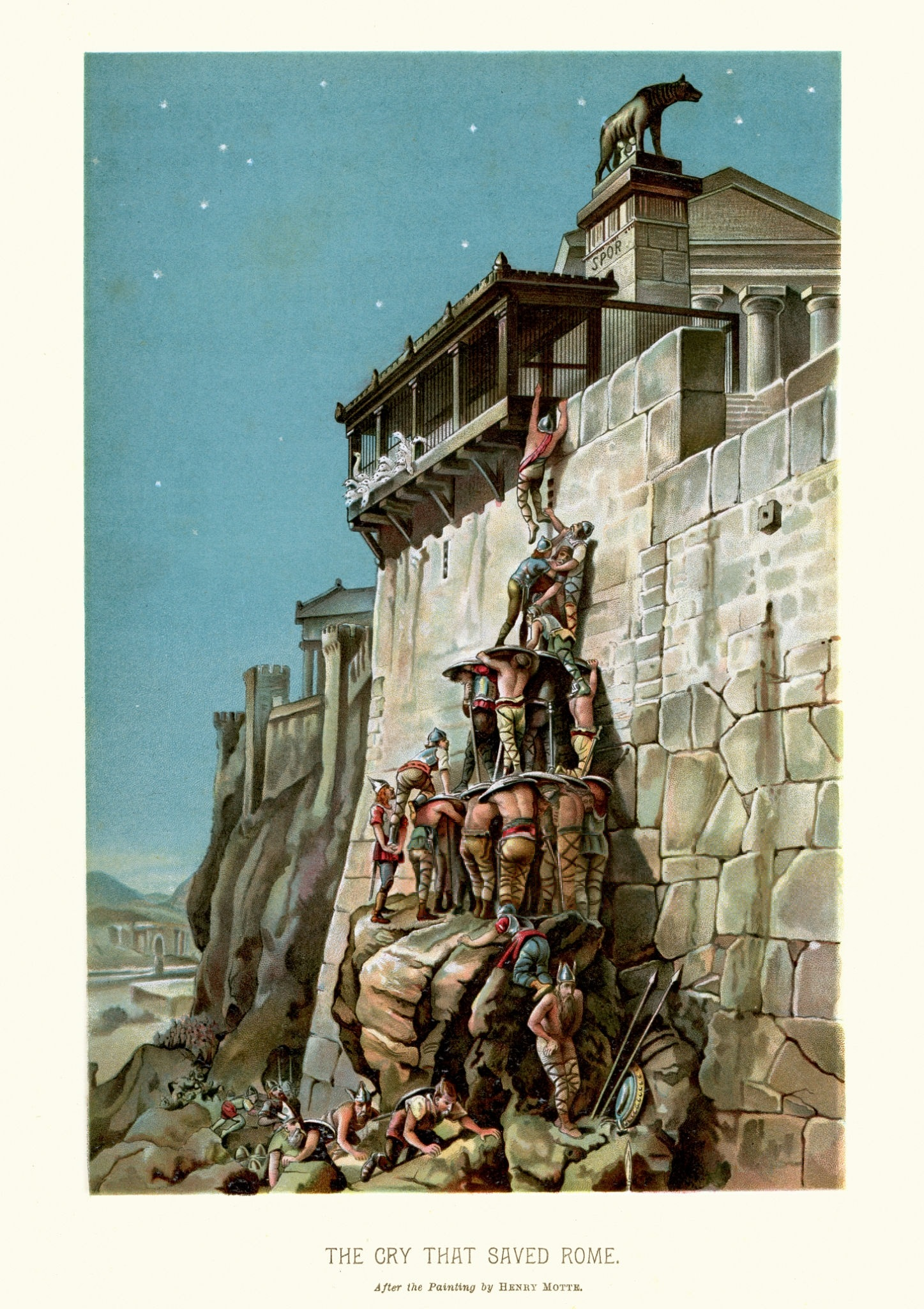 Contemporary colour lithograph after a now lost painting by Henri-Paul Motte (1883)